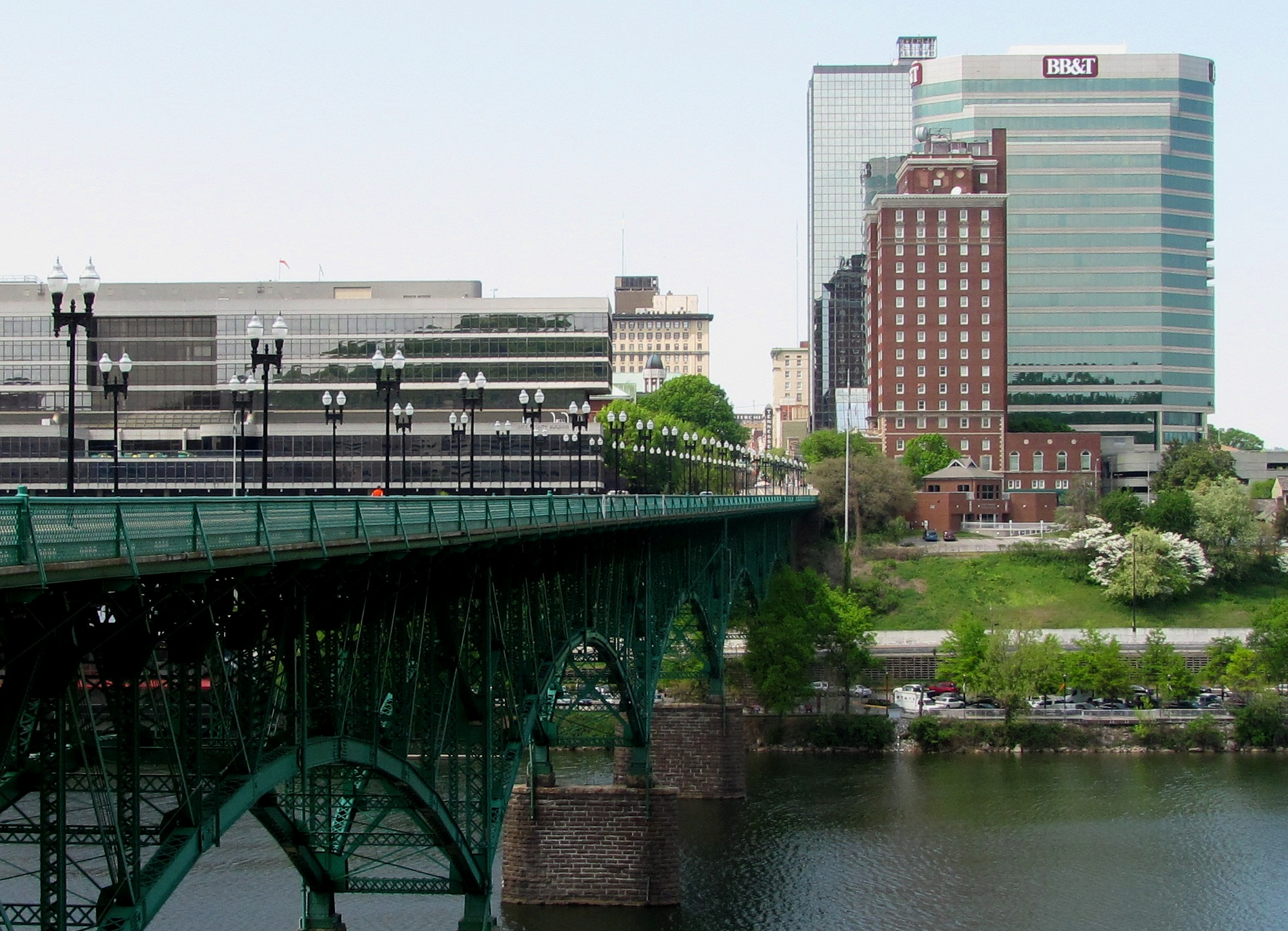 View of the Gay Street Bridge and Gay Street high-rises in Knoxville, Tennessee, USA.